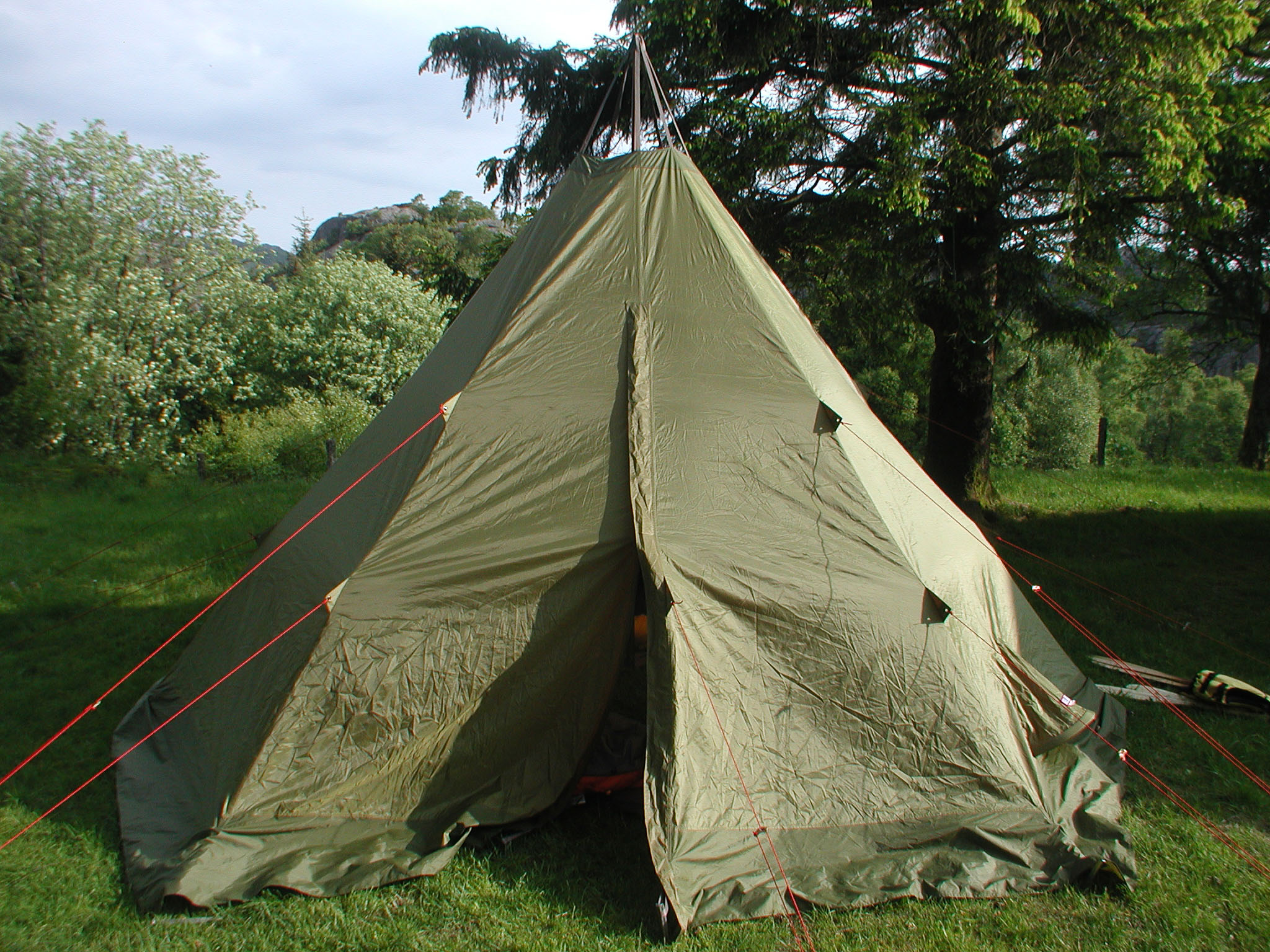 Modern lavvo, sleeps six